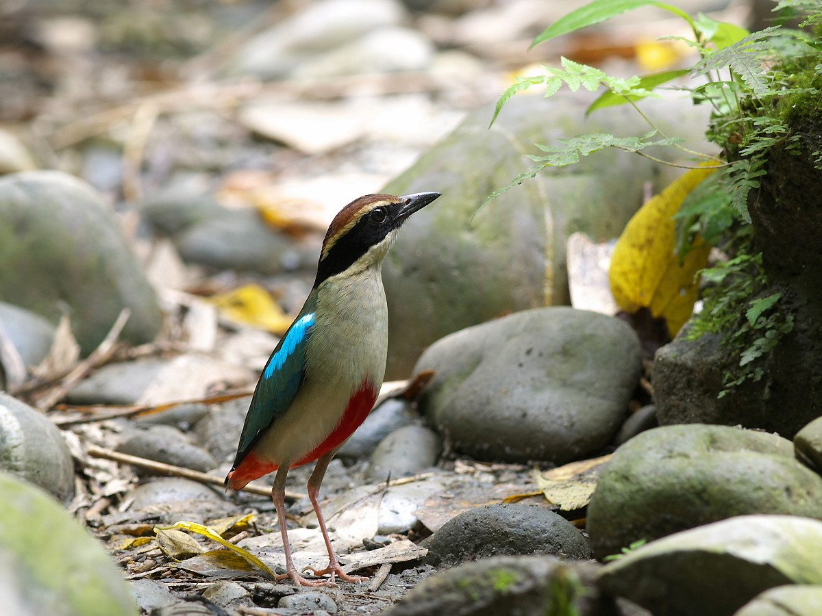 Fairy pitta in Taiwan